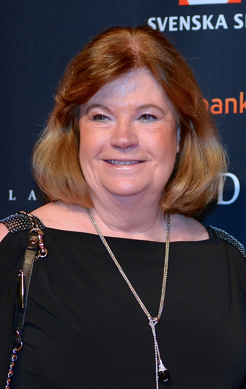 Gunilla Lindberg at the Swedish Sports Gala at the Ericsson Globe in Stockholm, January13, 2014.